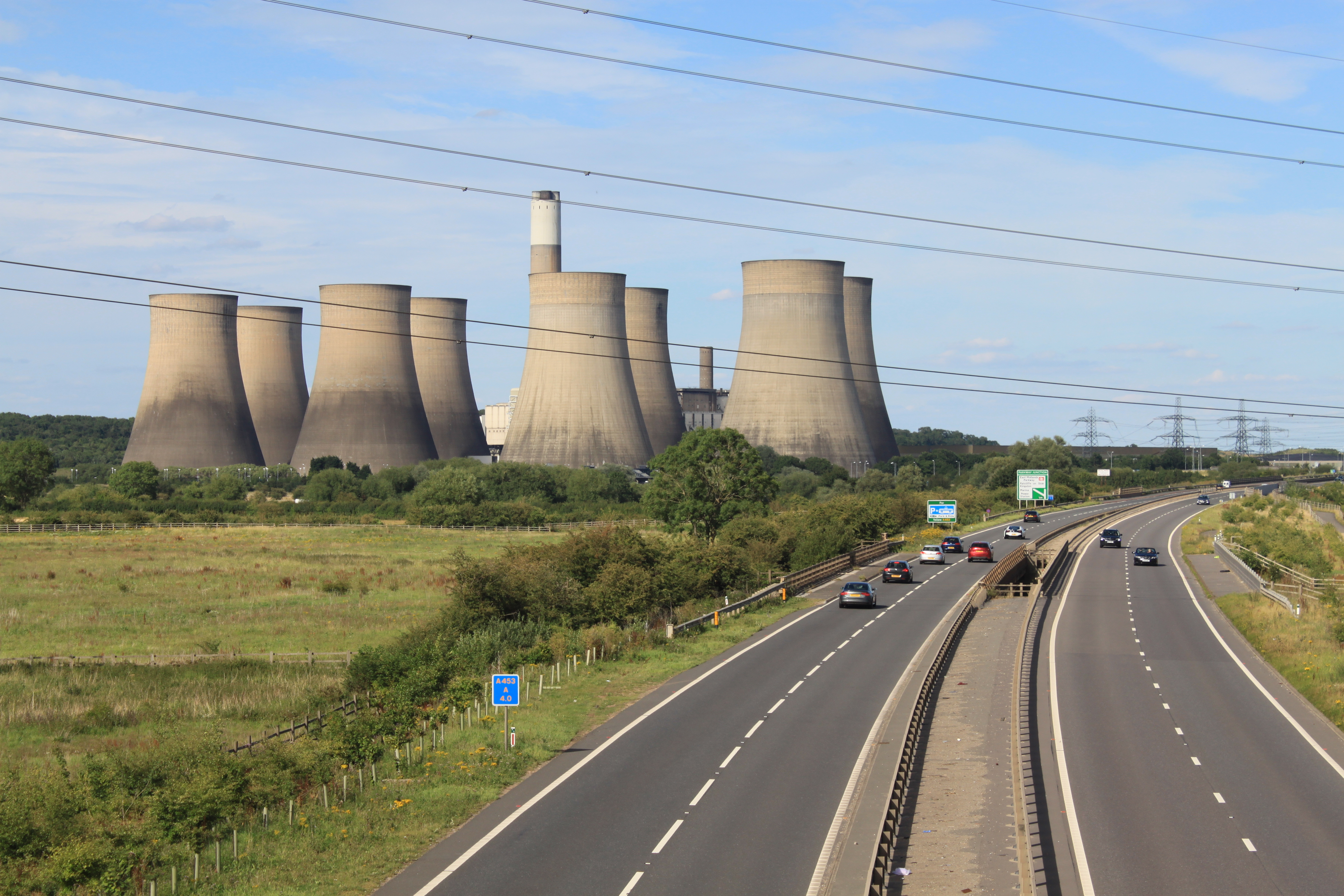 Ratcliffe-on-Soar Power Station situated next to the A453 Remembrance Way dual carriageway. Picture taken from the Long Lane road bridge outside of Kegworth, looking northeast.